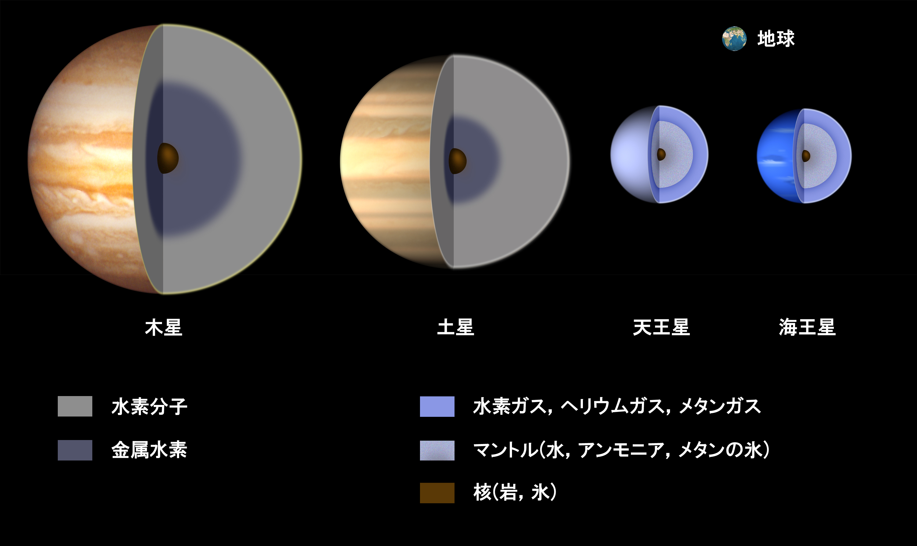 This picture is translation of Gas_Giant_Interiors.jpg